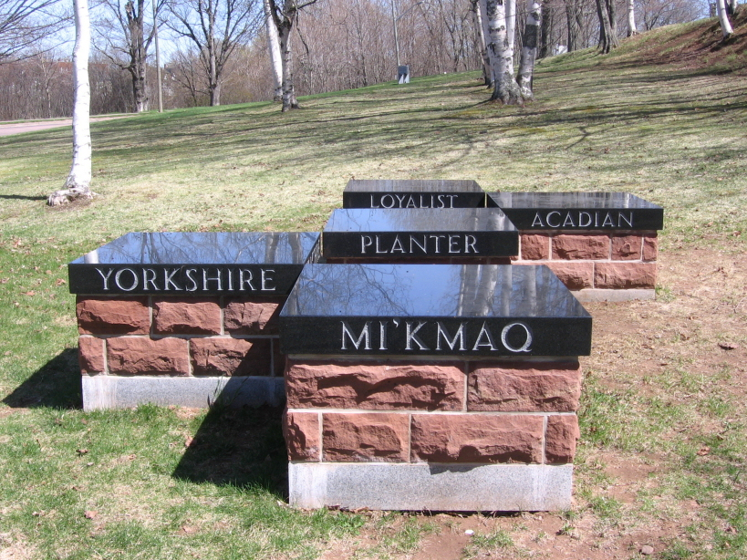 Sackville founders monument on the campus of Mount Allison University, Sackville, NB. I made this picture and freely share it. Verne Equinox 20:55, 3 June 2006 (UTC)